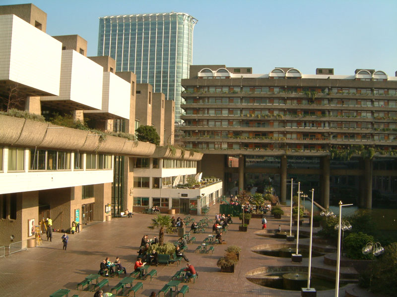 Barbican Arts Centre